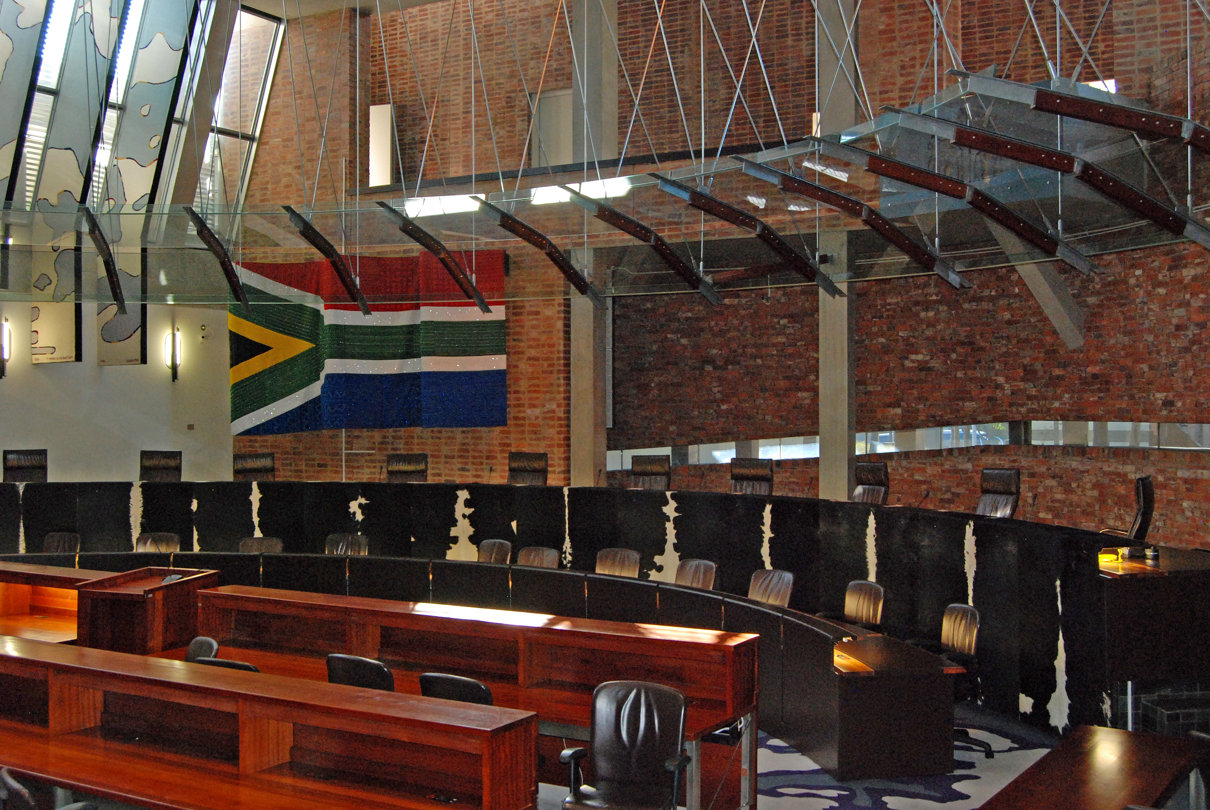 Constitutional Court Chamber / The Constitutional Court's new South African flag; the beaded and embroidered flag measures 6 metres by 2.5 metres